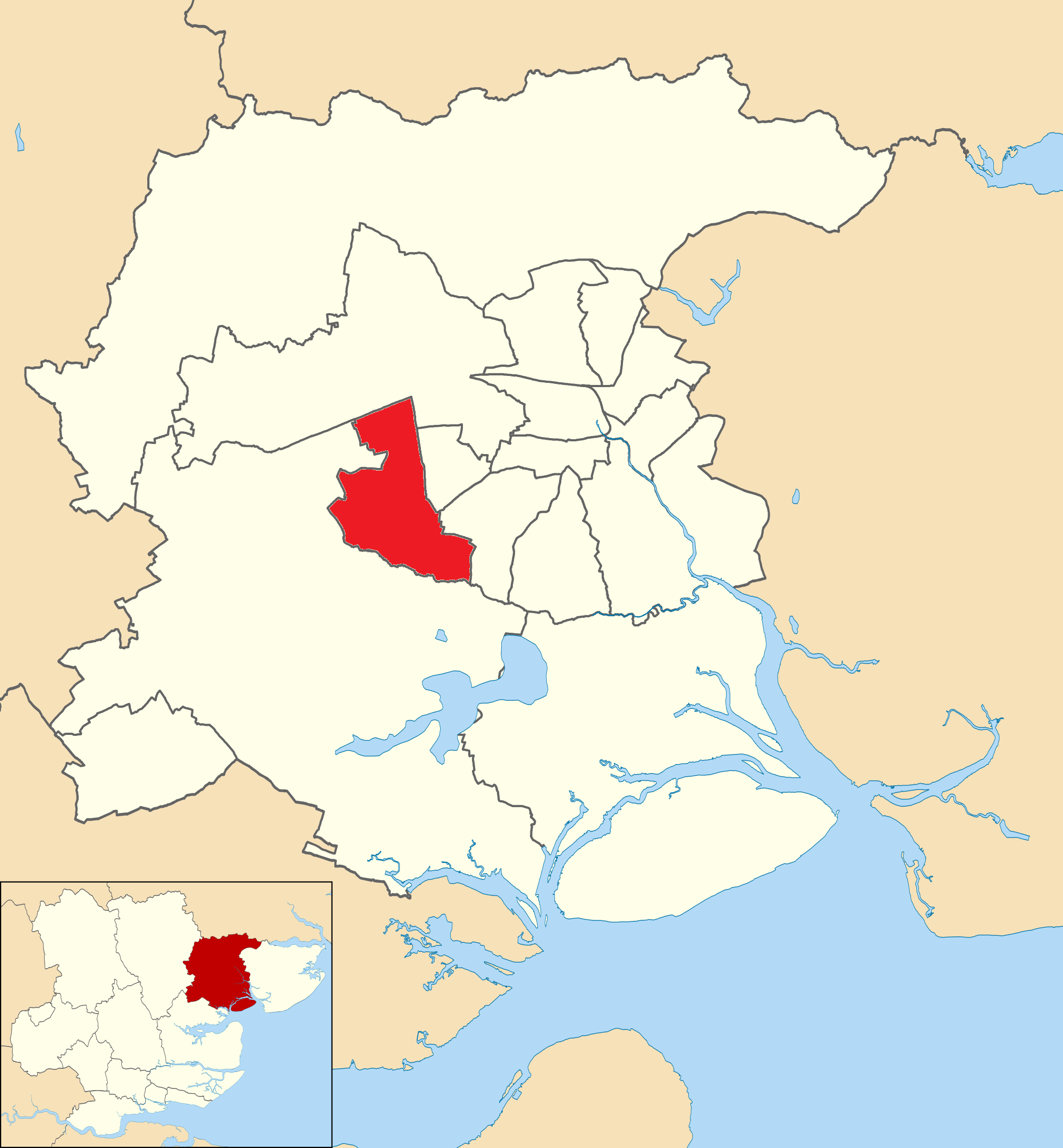 Stanway ward highlighted within Colchester Borough